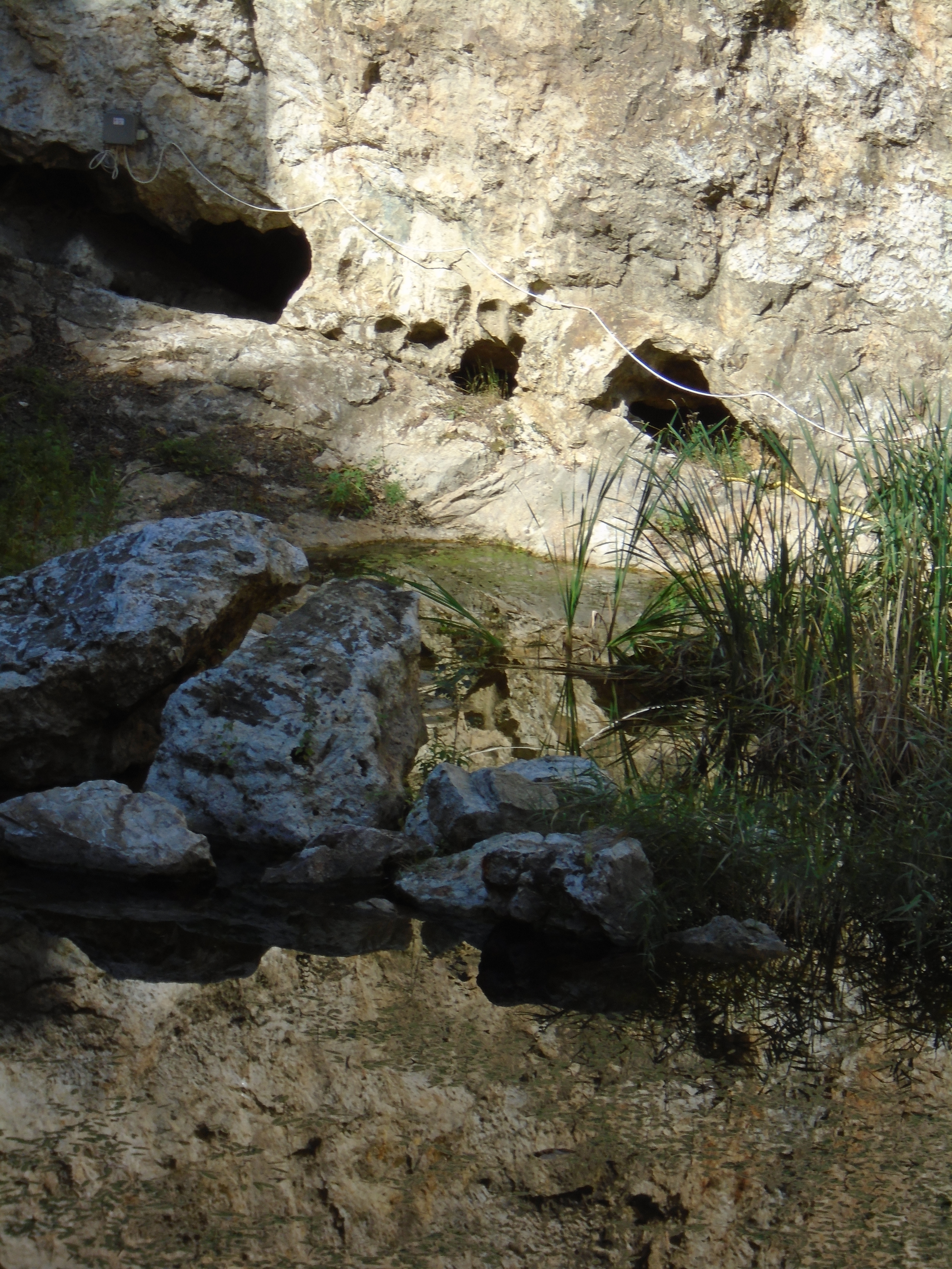 Entrance of Csókavári Cave in Üröm.